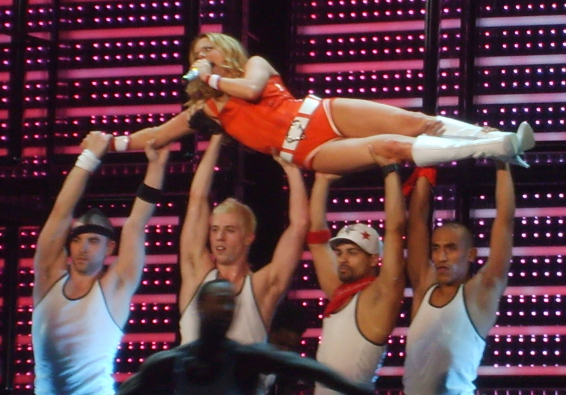 Geri at the o2